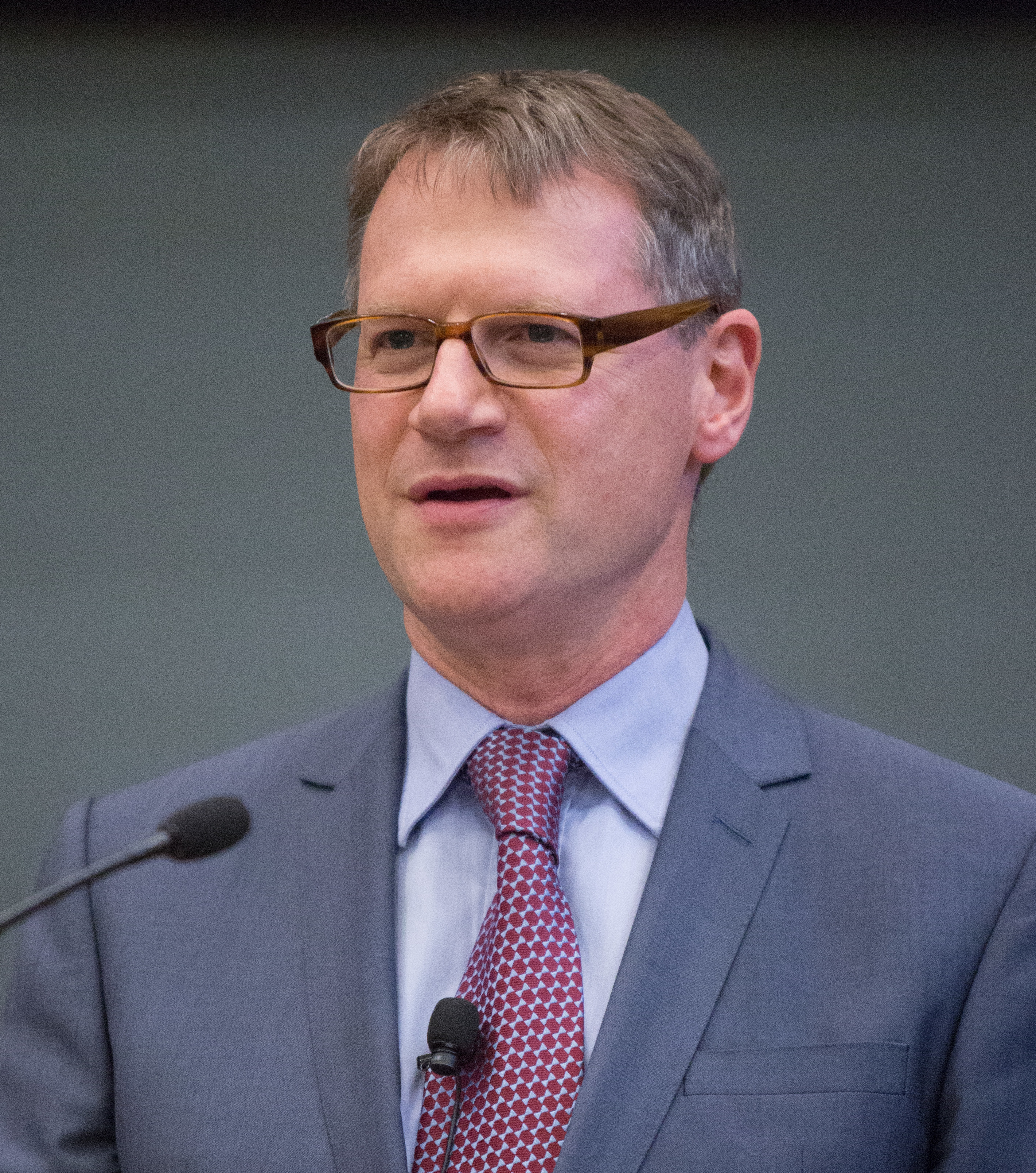 Jonathan Wolff Lecture at HarvardEthics